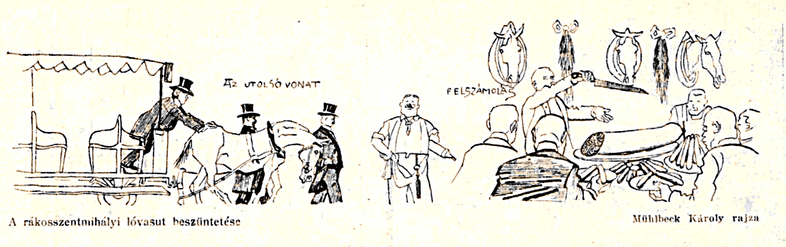 Drawing by Károly Mühlbeck: The cessation of the horse railway in Rákosszentmihály